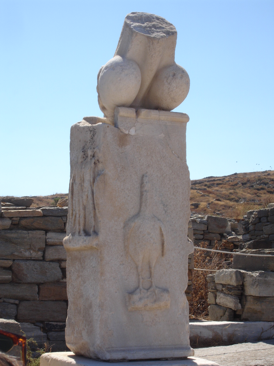 Phallic symbol (subsequently broken) from the island of Delos Personal photograph